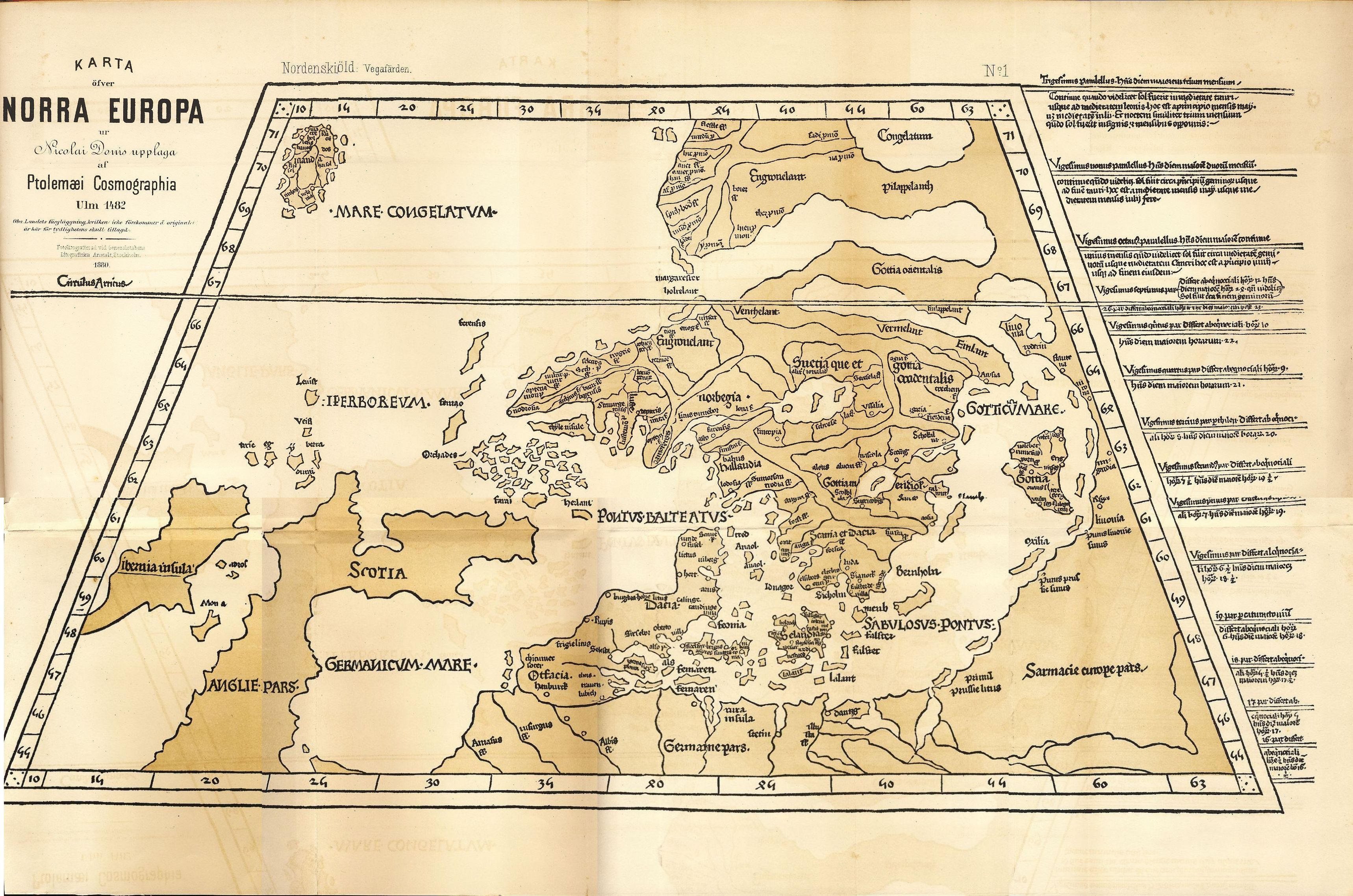 An 1880 Swedish reprint of the 1482 Ulm Ptolemy's 11th European Map, depicting northern Europe